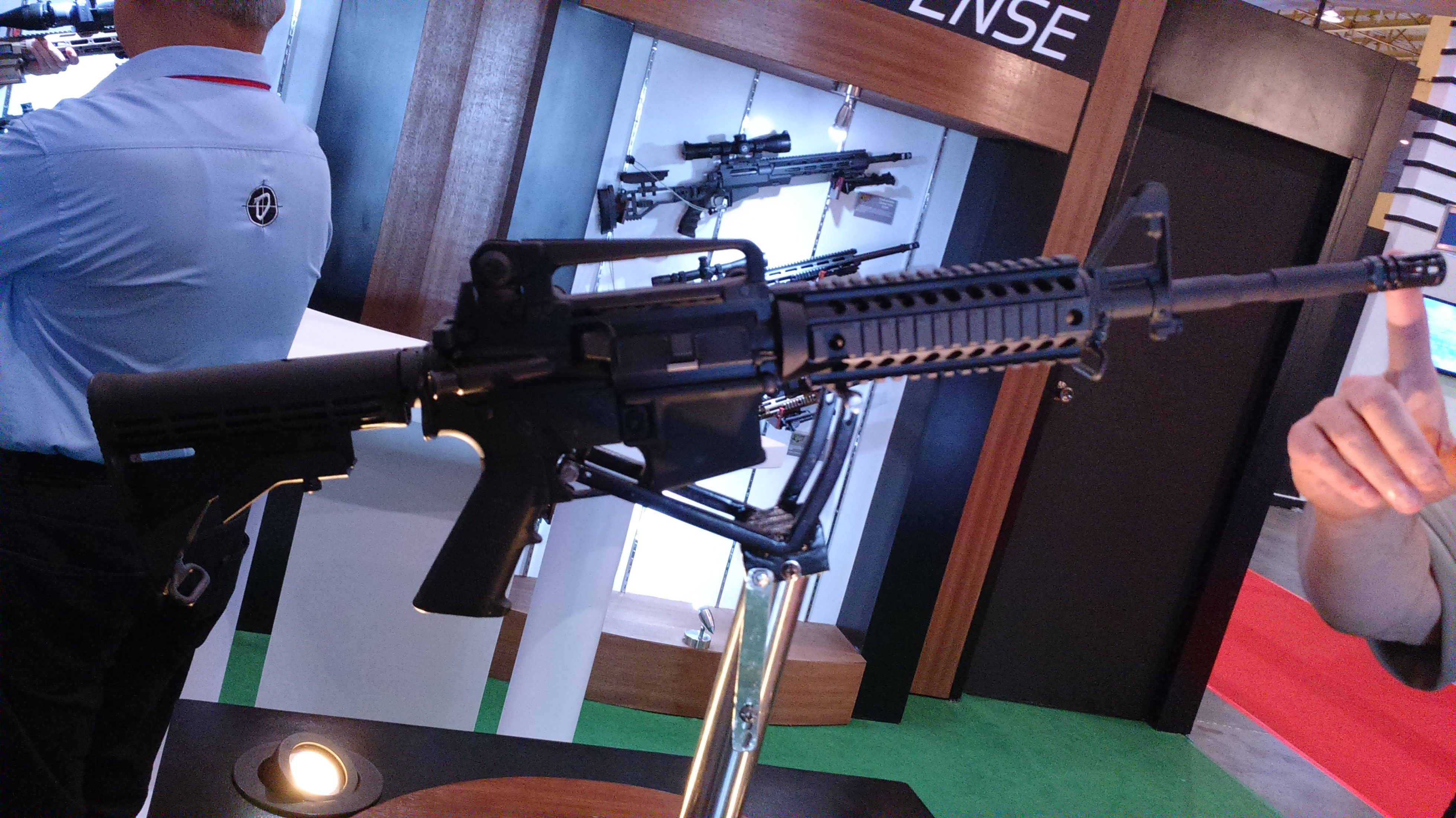 A Remington R4 Rifle (a variant of the M4 rifle) issued to the Philippine Army and Philippine Marines, taken during the ADAS 2014 Exhibit at the World Trade Center in Pasay, Manila, Philippines.